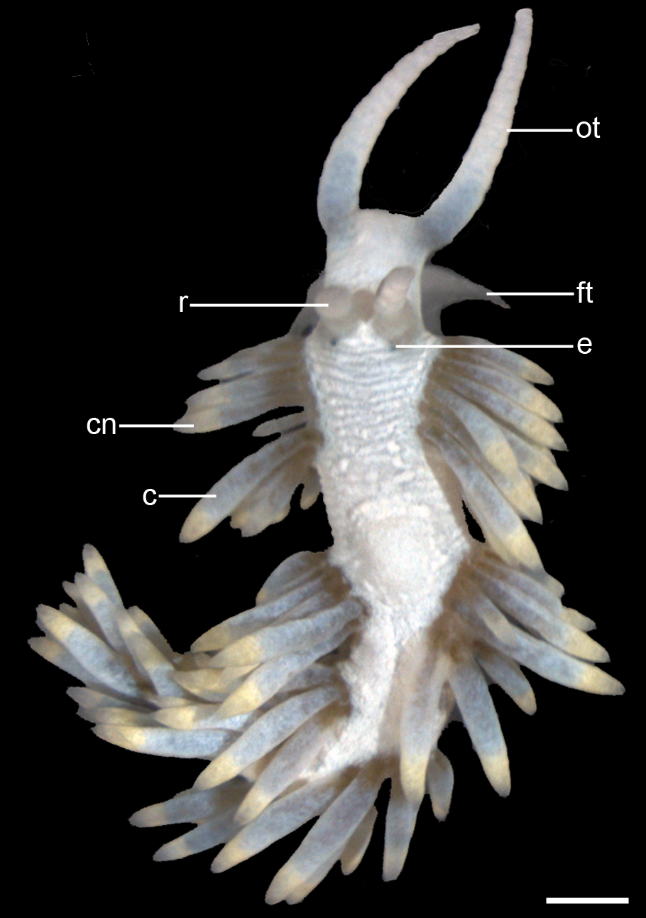 Photo of dorsal view of mature of Berghia stephanieae (Valdés, 2005) (synonym:Aeolidiella stephanieae}. Scale bar is 100 μm. ot = oral tentacles, ft = foot tentacles e = eye, r = rhinophores, cn =cnidosacs at the cerata tips. c = cerata.